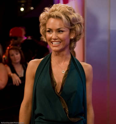 Kelly Carlson at the eTalk Festival Party, during the Toronto International Film Festival.